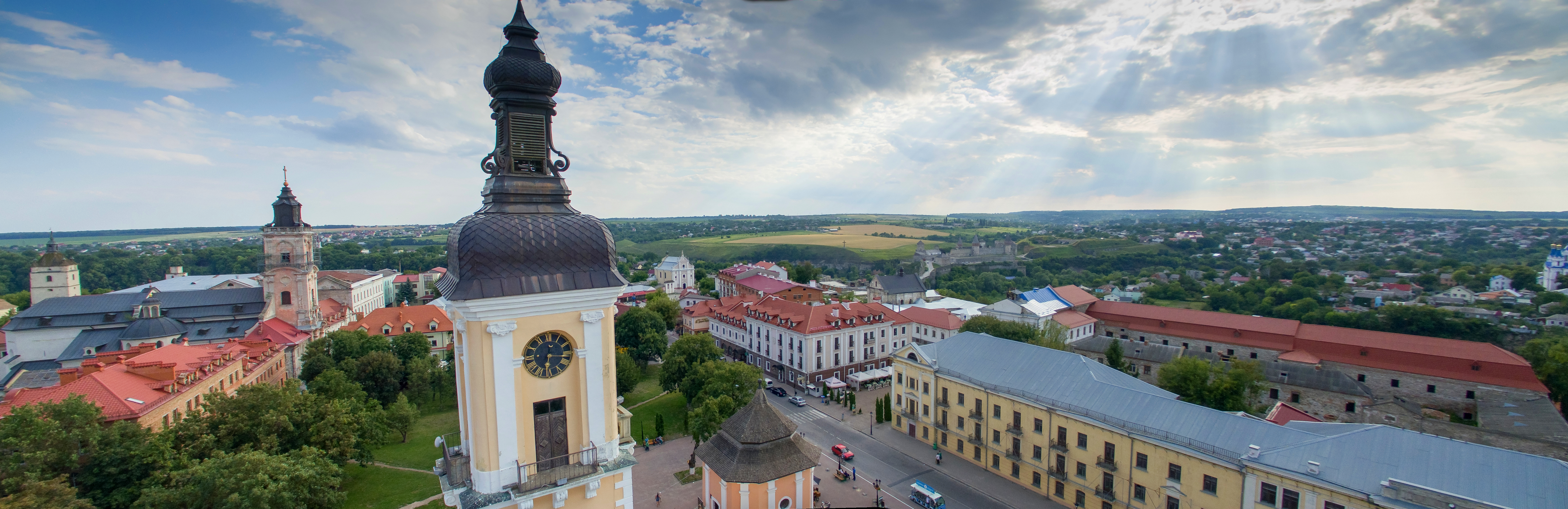 Panorama of Old Town in Kamyanets-Podilskyi, Ukraine